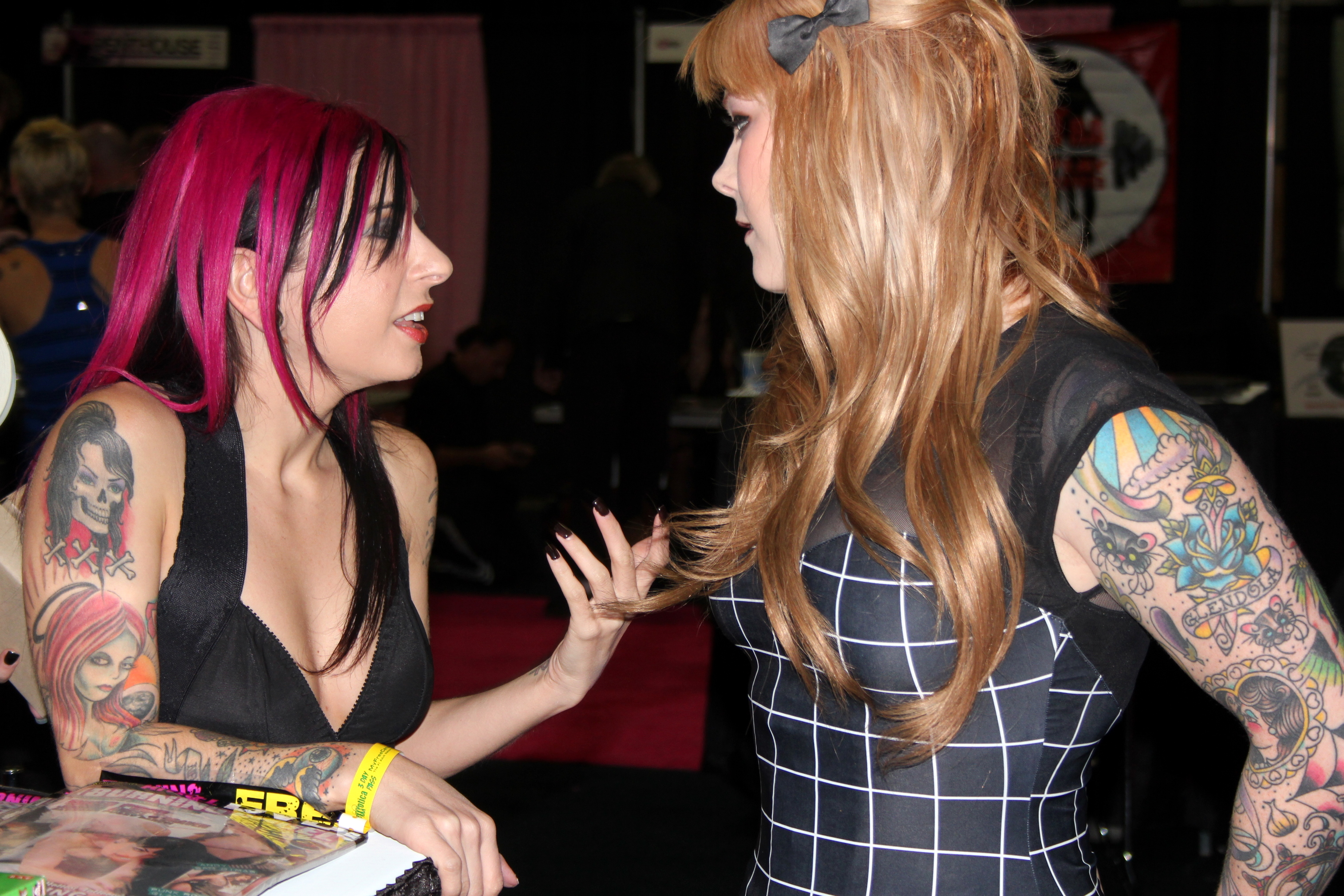 Joanna Angel with Misti Dawn on Day two of Exxxotica NJ 2010 at Edison, New Jersey.